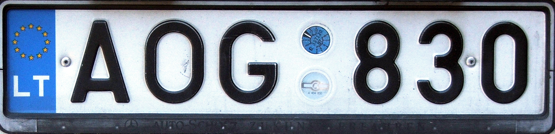 New vehicle licence plate from Lithuania- after accession of Lithuania to the E.U. Seen on the bus in 2007